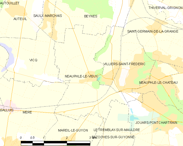 Map of French municipality Neauphle-le-Vieux